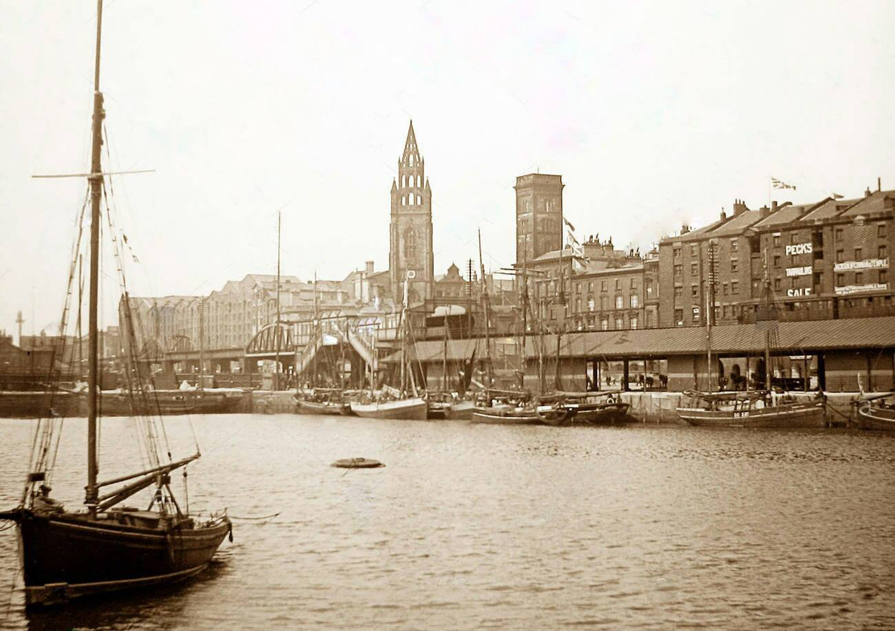 Postcard view north over George's Dock, 1897 The Liverpool Overhead Railway runs across the centre of the image, with St Nicholas church to the rear.